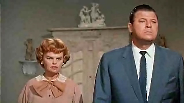 Screenshot of Madeleine Sherwood and Jack Carson from the trailer for the film Cat on a Hot Tin Roof (film)